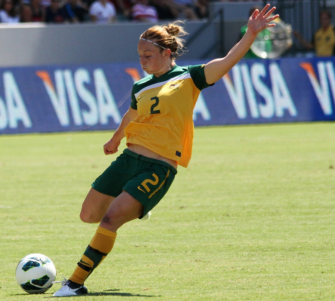 Australian midfielder/defender Teigen Allen playing against the USWNT in September 2012 during an international friendly in Carson, LA